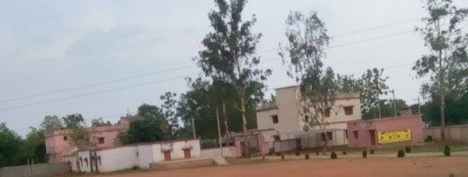 B.N.K. High School